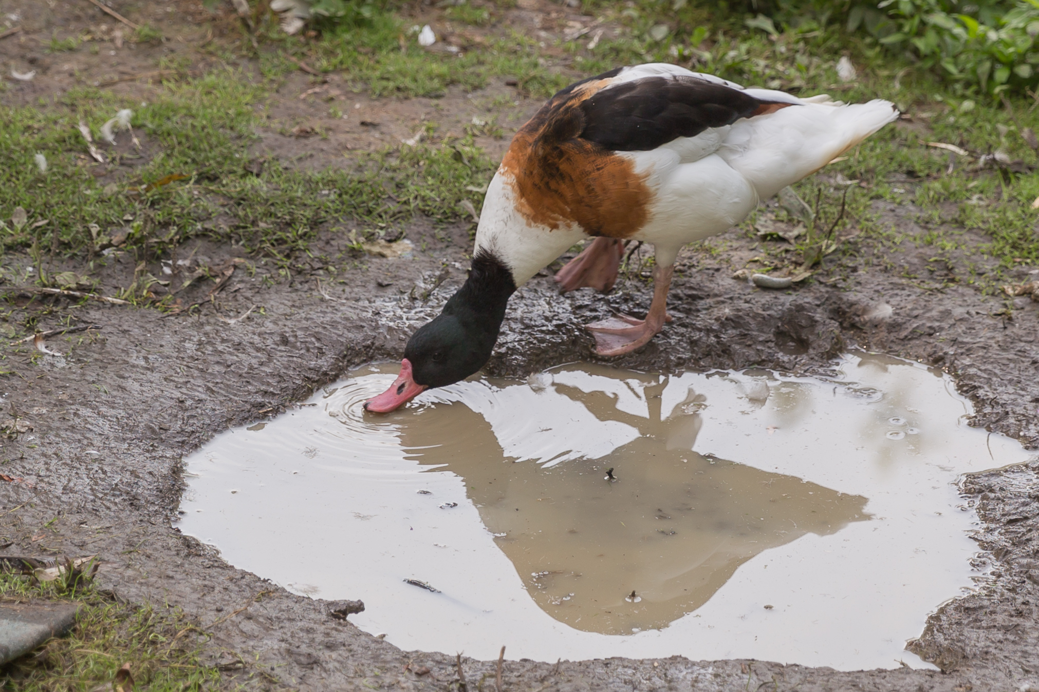 Tadorna tadorna (Common Shelduck) female in the ZooParc de Beauval in Saint-Aignan-sur-Cher, France.